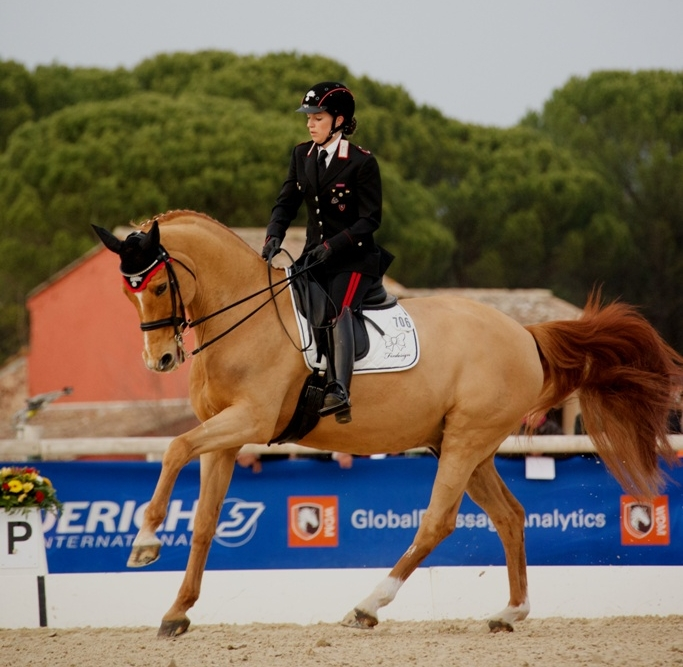 Valentina Truppa with Chablis, CDI 5* Vidauban 2015